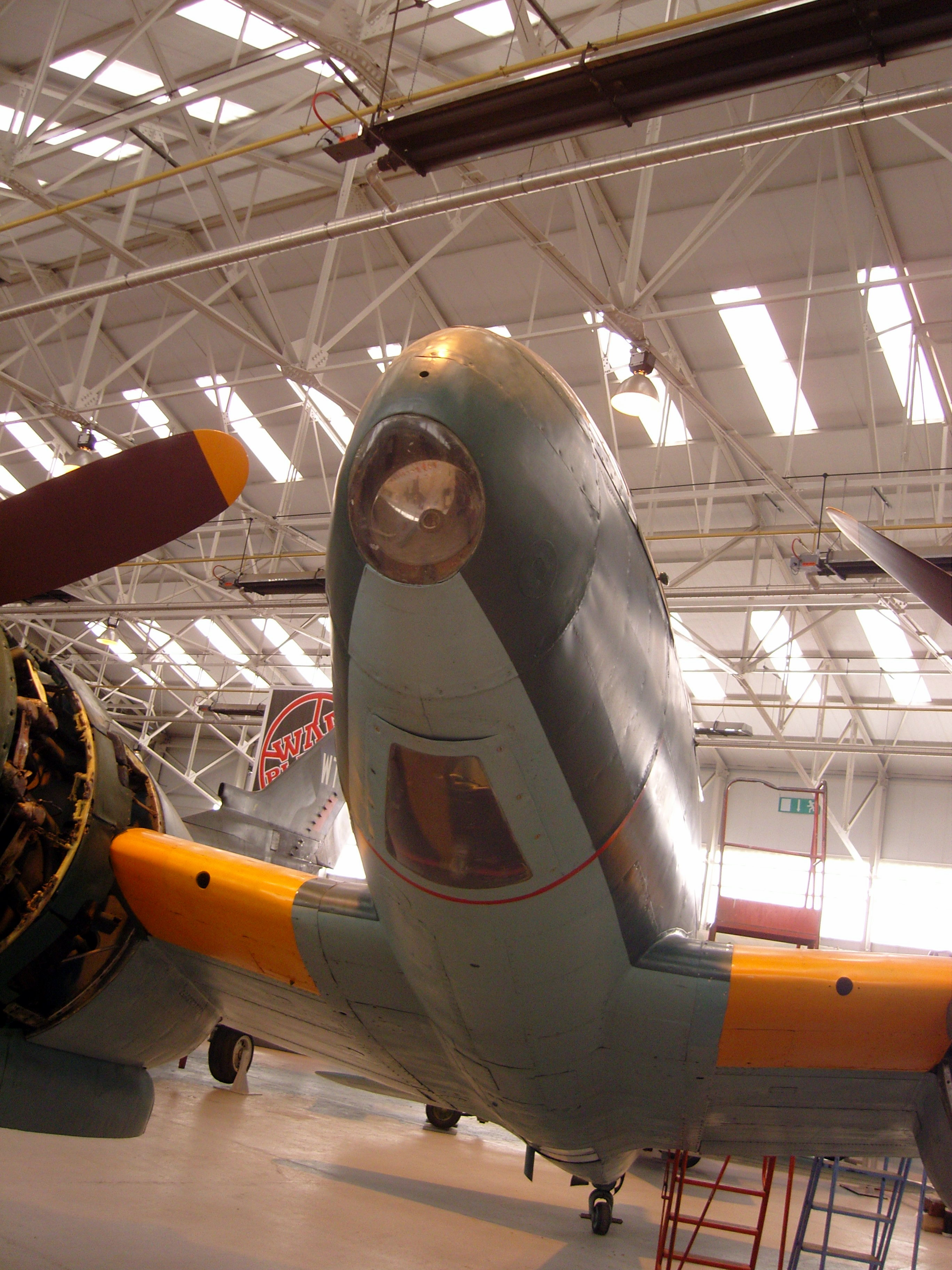 Photoghaphed at the RAF Museum, Cosford Vintage, Veteran and Preserved Aircraft Photo ref SNC13325